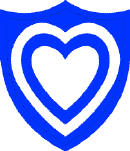 XXIV Corps SSI from [1]